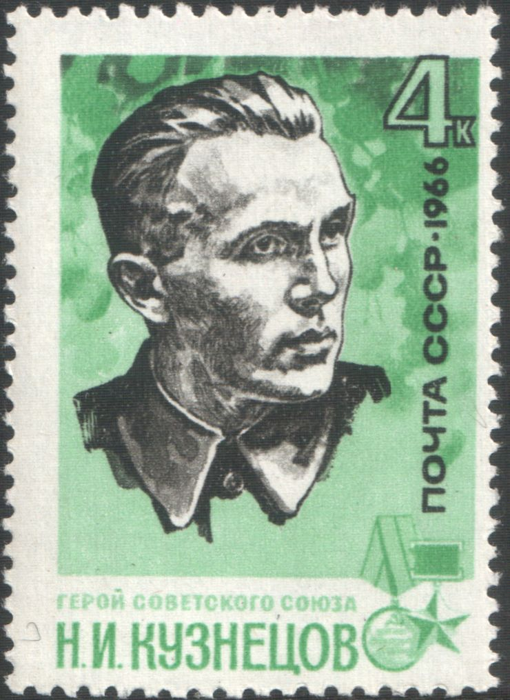 Stamp of USSR: Portrait of Hero of USSR N. I. Kuznetsov (1911-1944). Issue: Heroes-Partizans of Second World